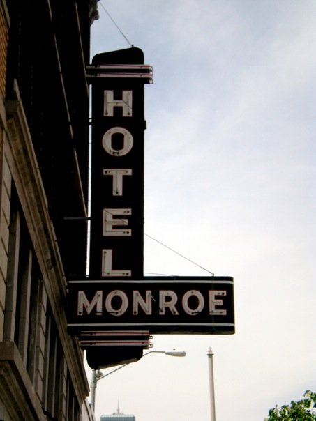 Historic Monroe Hotel in Kansas City, MO.